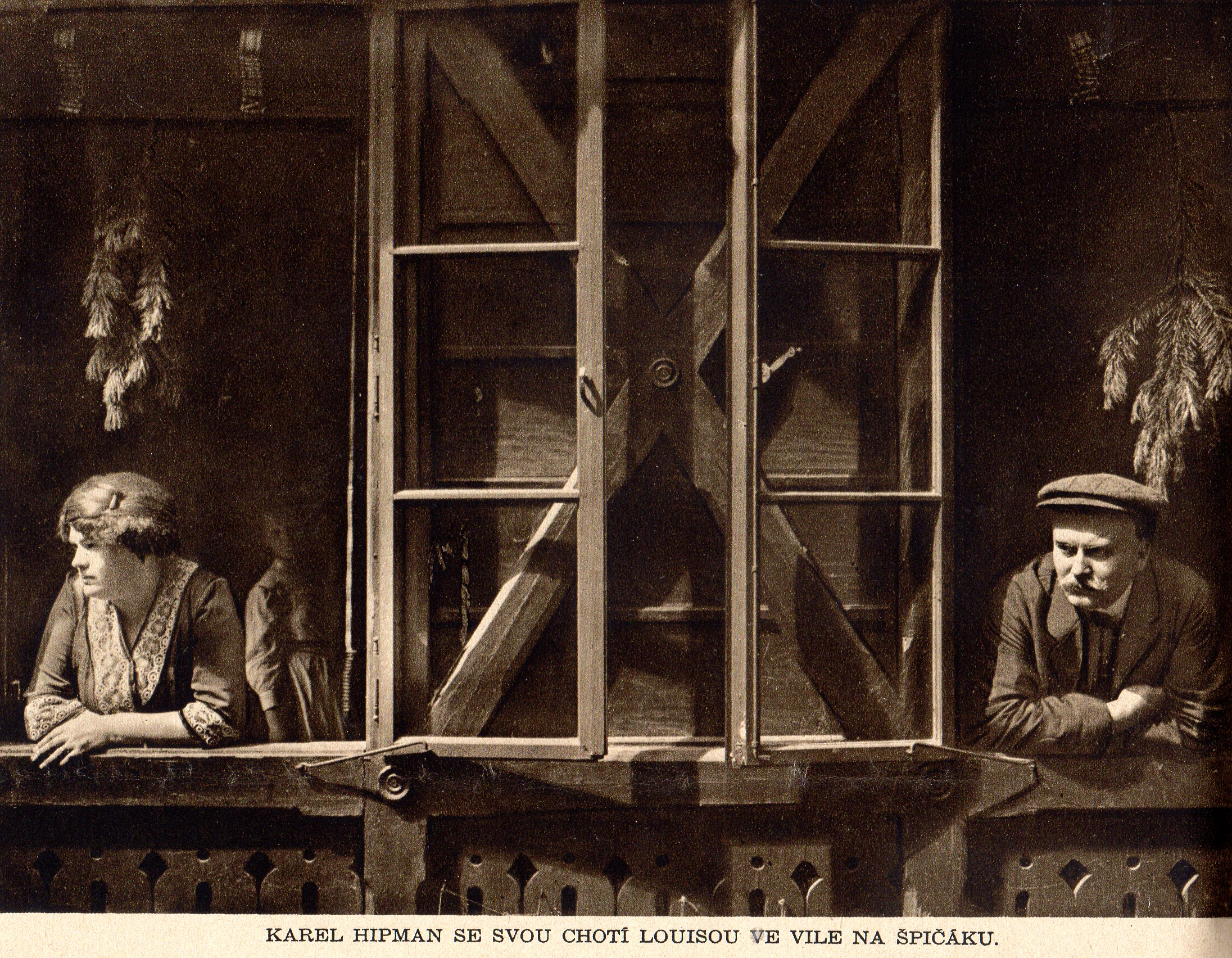 Karel Hipman with wife